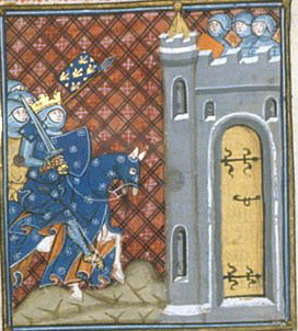 The siege of Coucy Castle by king Louis VI the Fat. (British Library, Royal 16 G VI f. 307v)